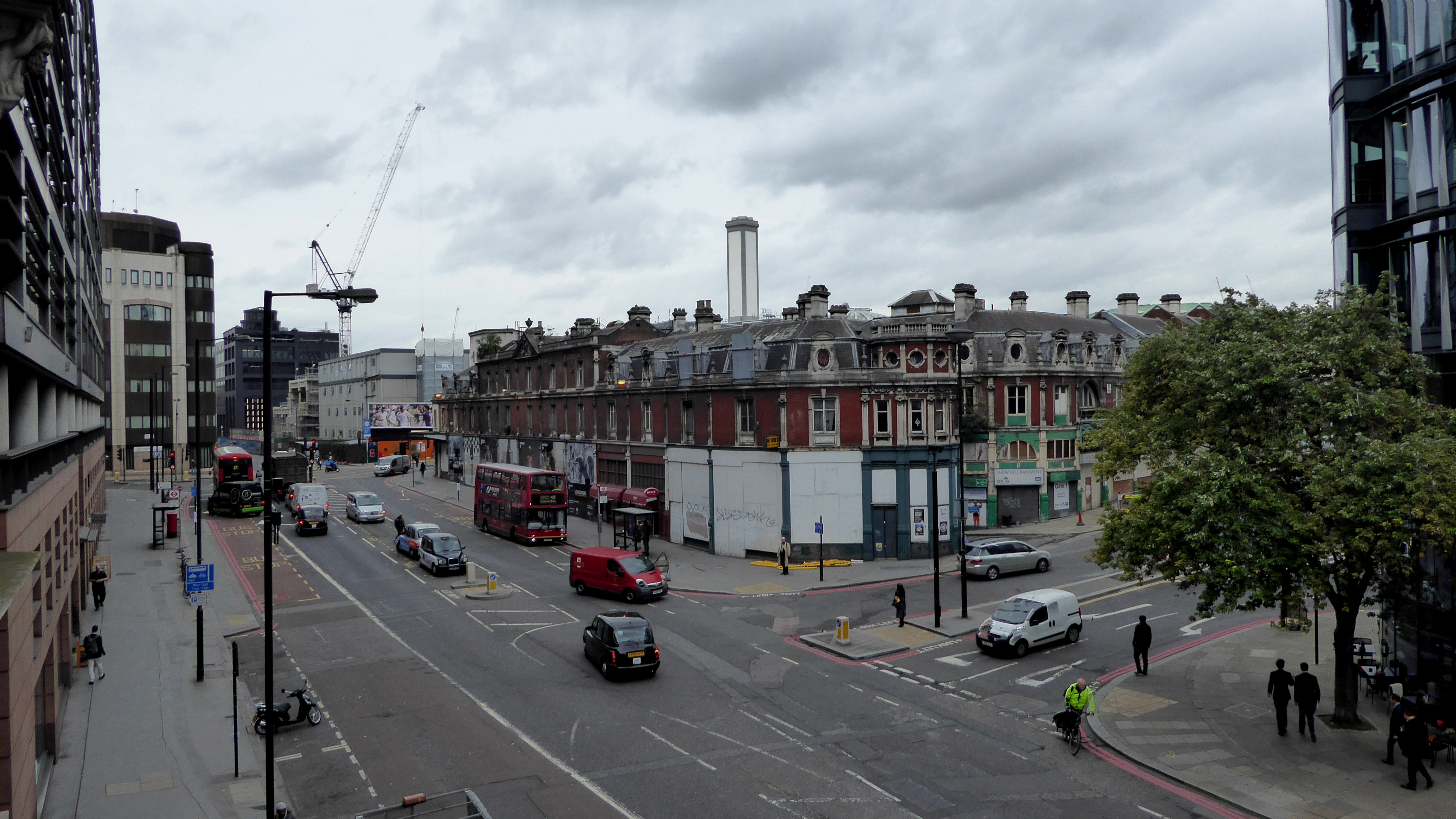 Farringdon Street as seen from the Holborn Viaduct bridge, in the City of London.